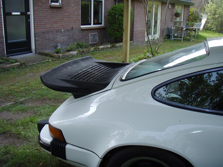 I, the copyright holder of this work, hereby release it into the public domain. This applies worldwide.